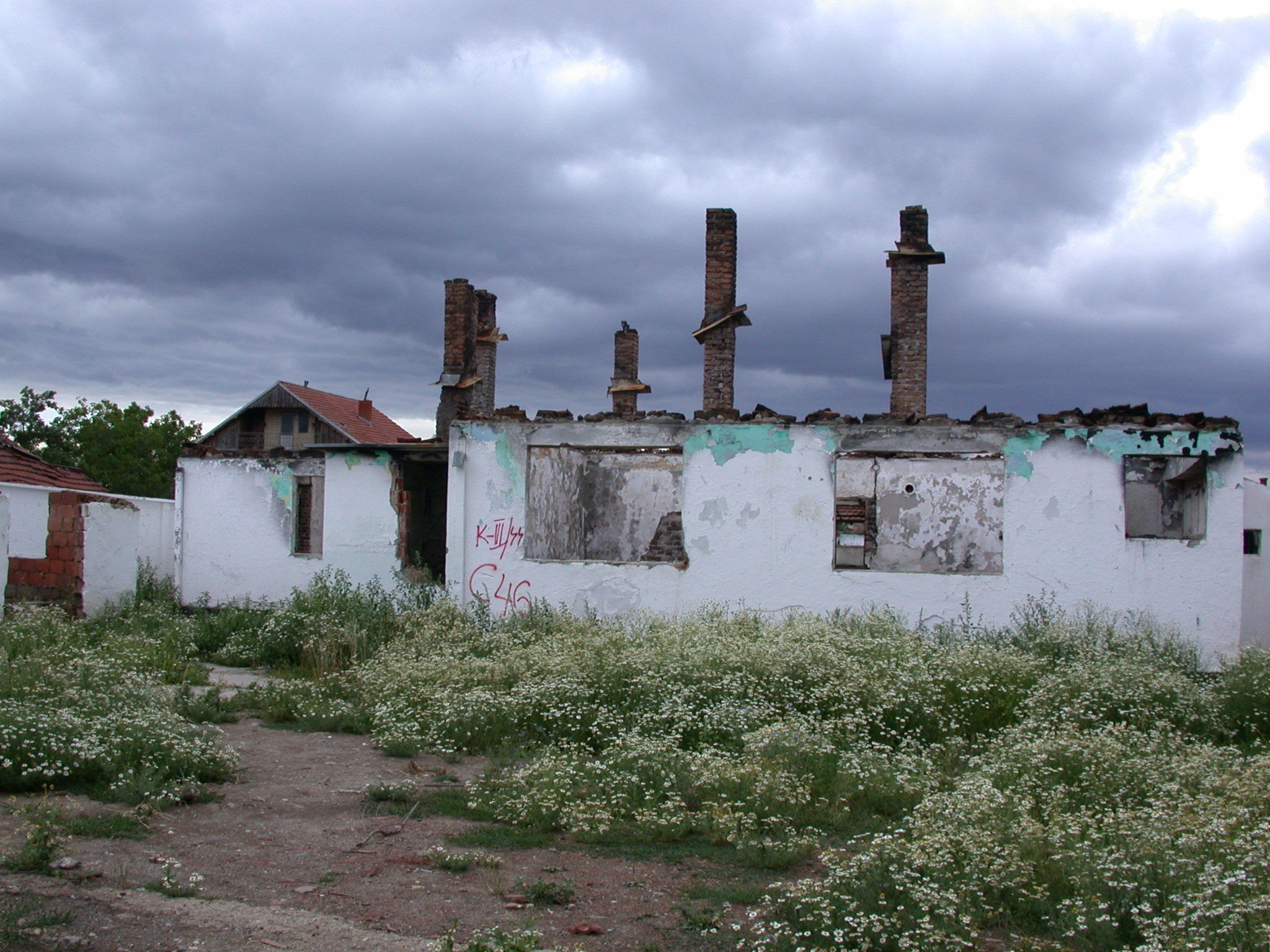 Homes owned by the Ashkali minority group in Mitrovica, Kosovo burnt in the 2004 unrest.